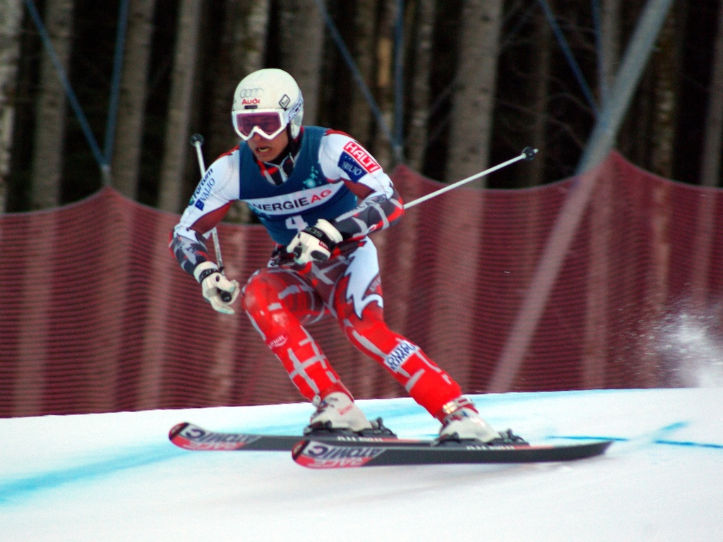 Finnish alpine skier Marcus Sandell during the European Cup Giant Slalom in Hinterstoder, Austria on January 11, 2008.